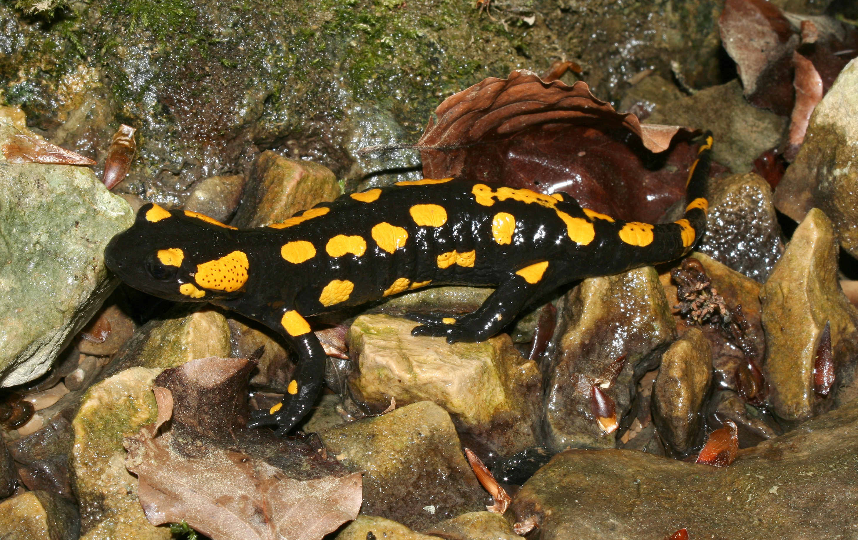 Fire salamander, Salamandra salamandra, Family: Salamandridae, Location: Southern Germany, Grabenstetten